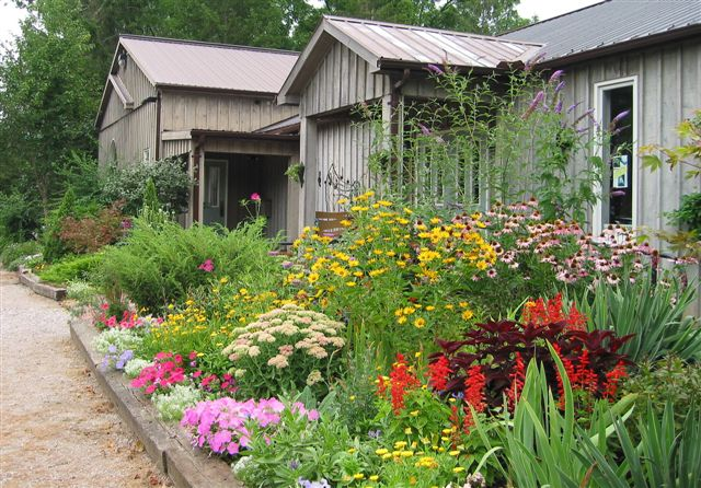 Ingersoll Creative Arts Centre